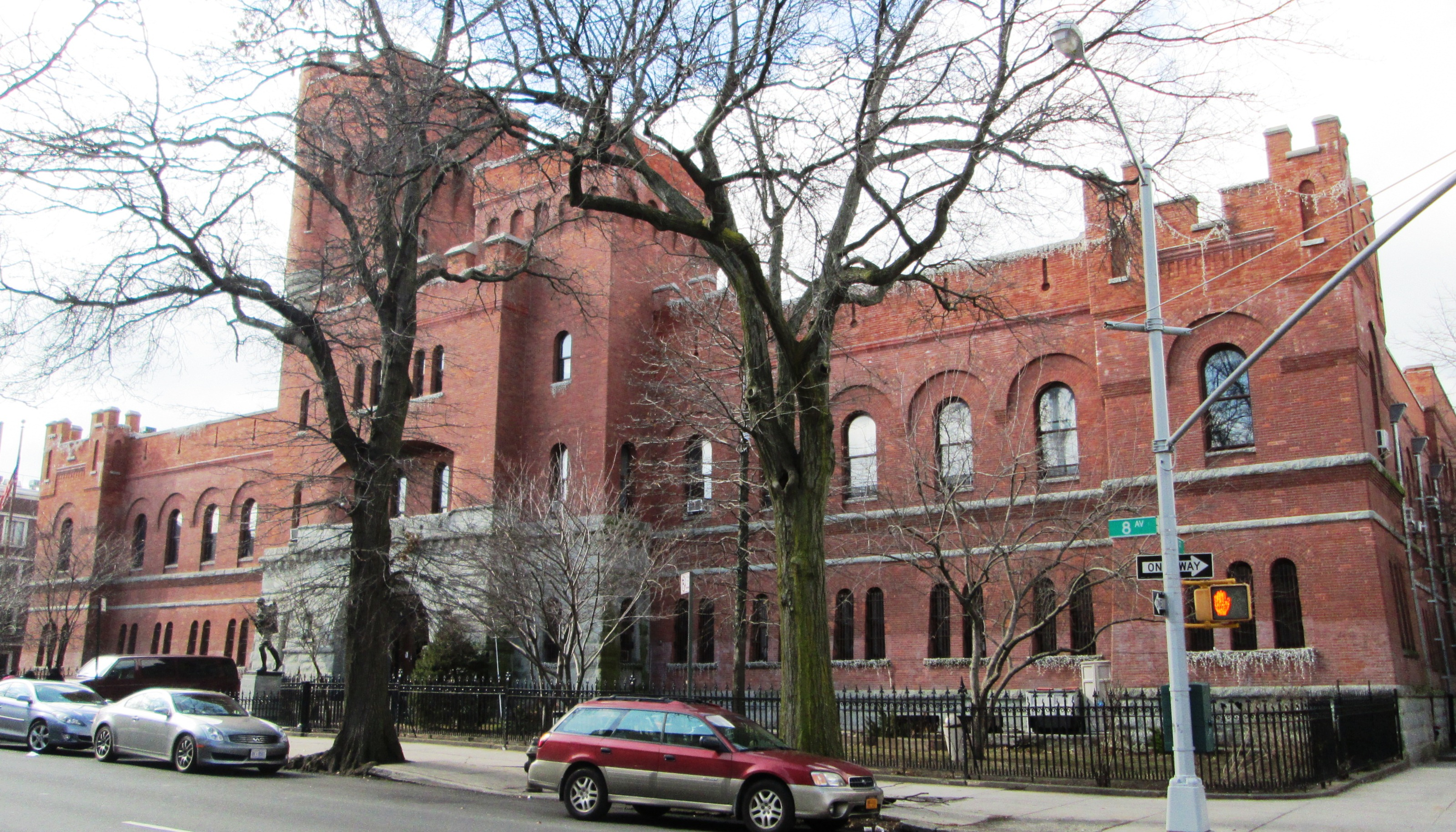 The 14th Regiment Armory at 1402 Eighth Avenue between 14th and 15th Streets in the South Slope neighborhood of Brooklyn, New York City was built in 1891-95 and was designed by Walter A. Mundell. The statue of a World War I doughboy in front by Anton Scaaf dates from 1923. The building was designated a NYC landmark in 1998. (Sources: AIA Guide to NYC (5th ed.) and Guide to NYC Landmarks (4th ed.))